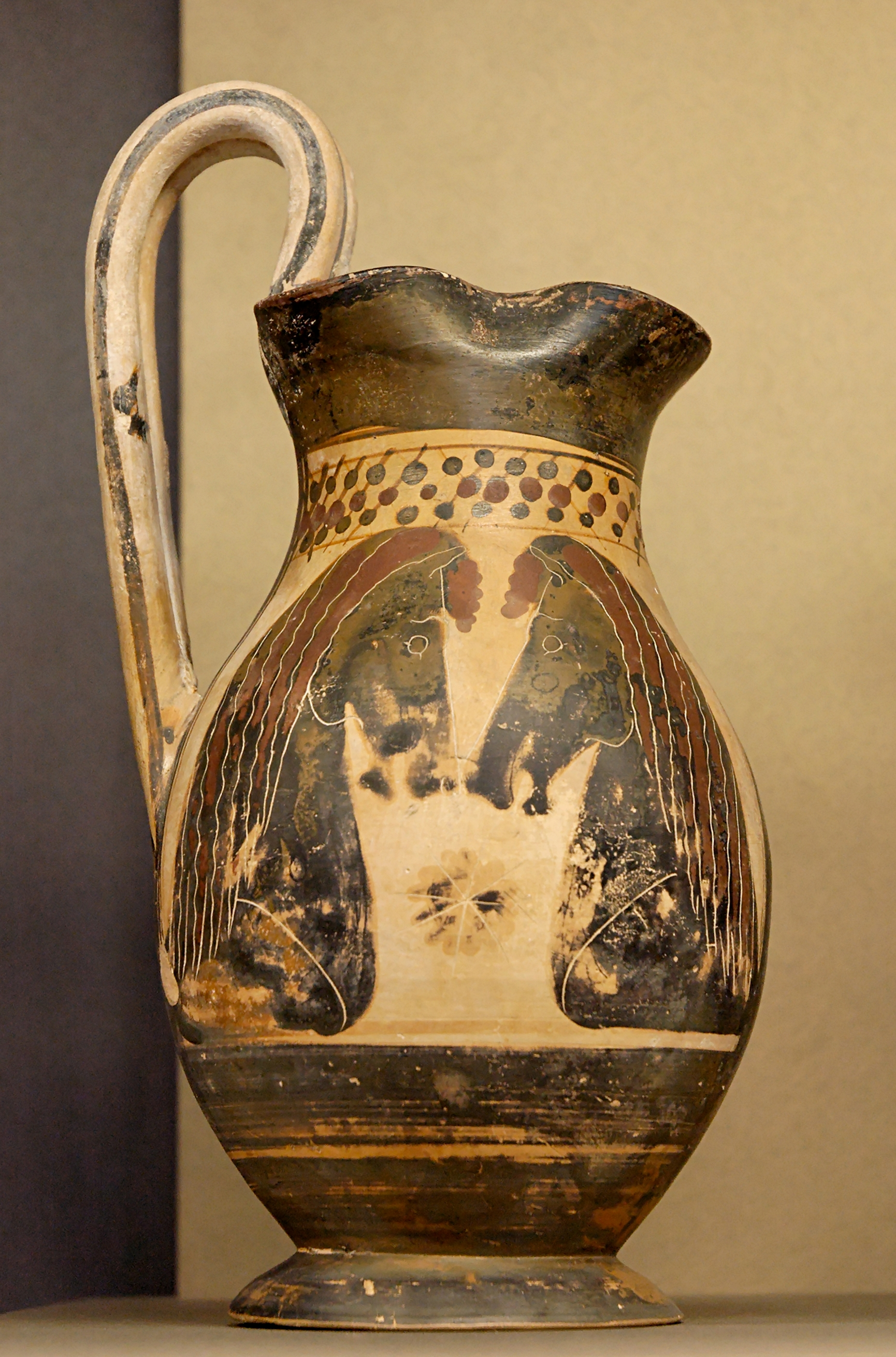 Horse protomes. Corinthian olpe, 575–550 BC.